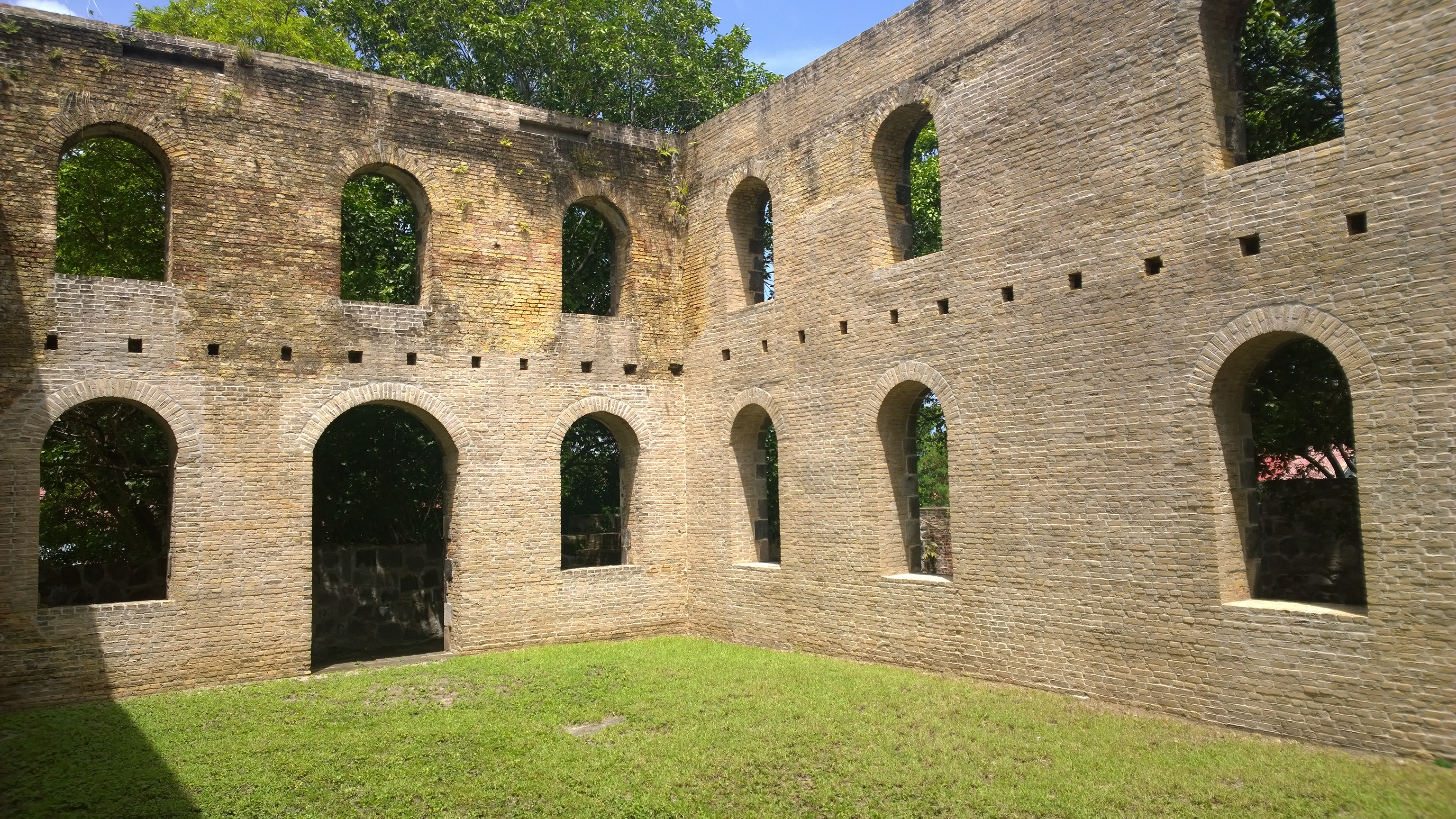 Stabilize walls of 1737 synagogue.